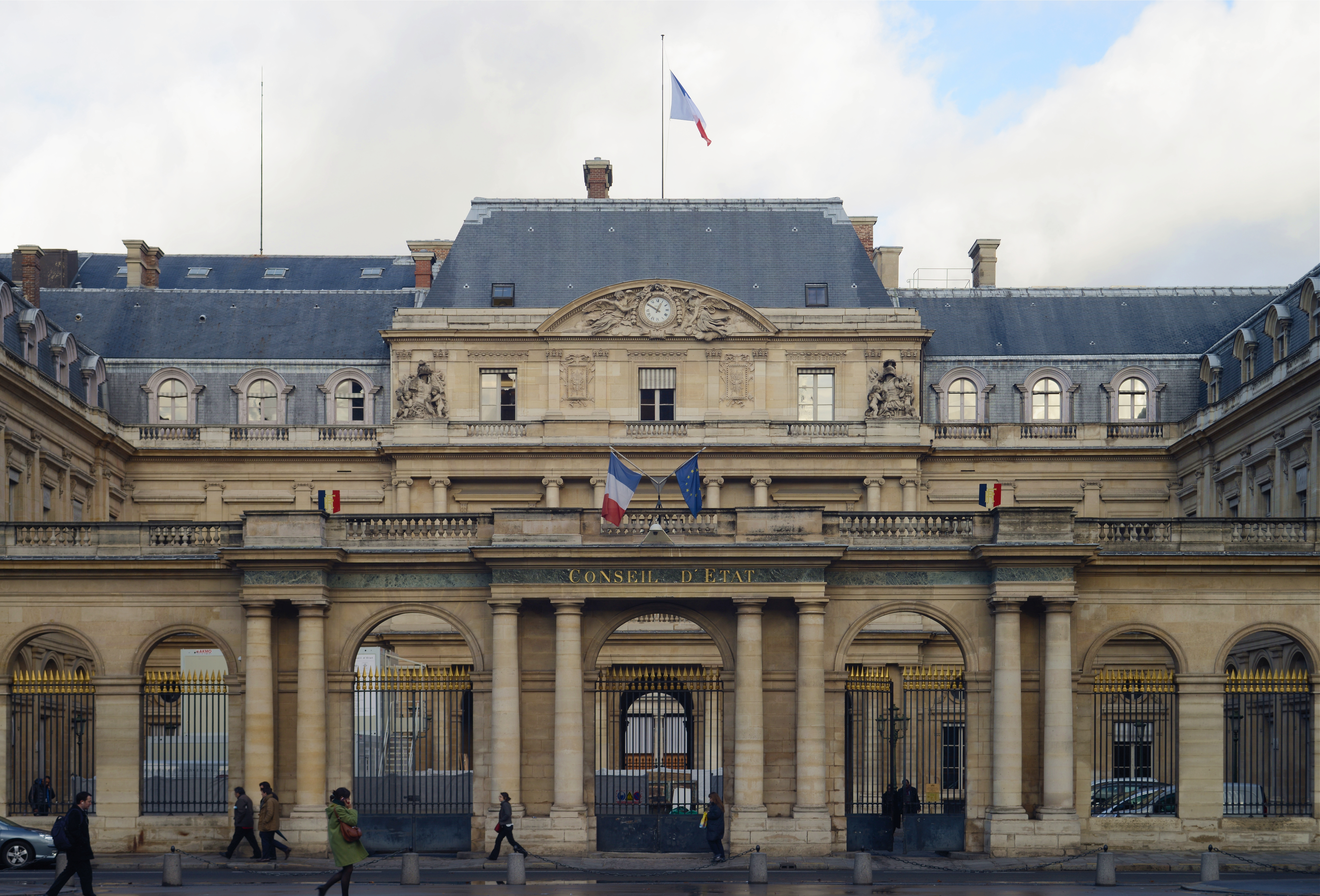 Detail of the south facade of the Palais Royal, Paris